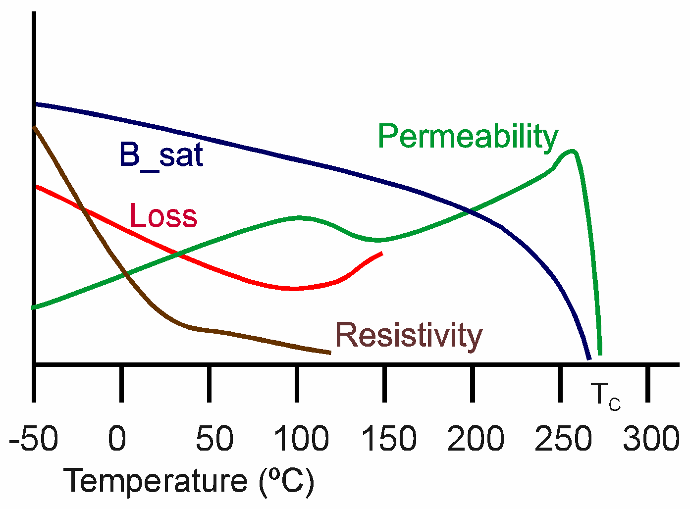 Temperature dependent properties of elctric and magnetic properties of MnZn ferrite